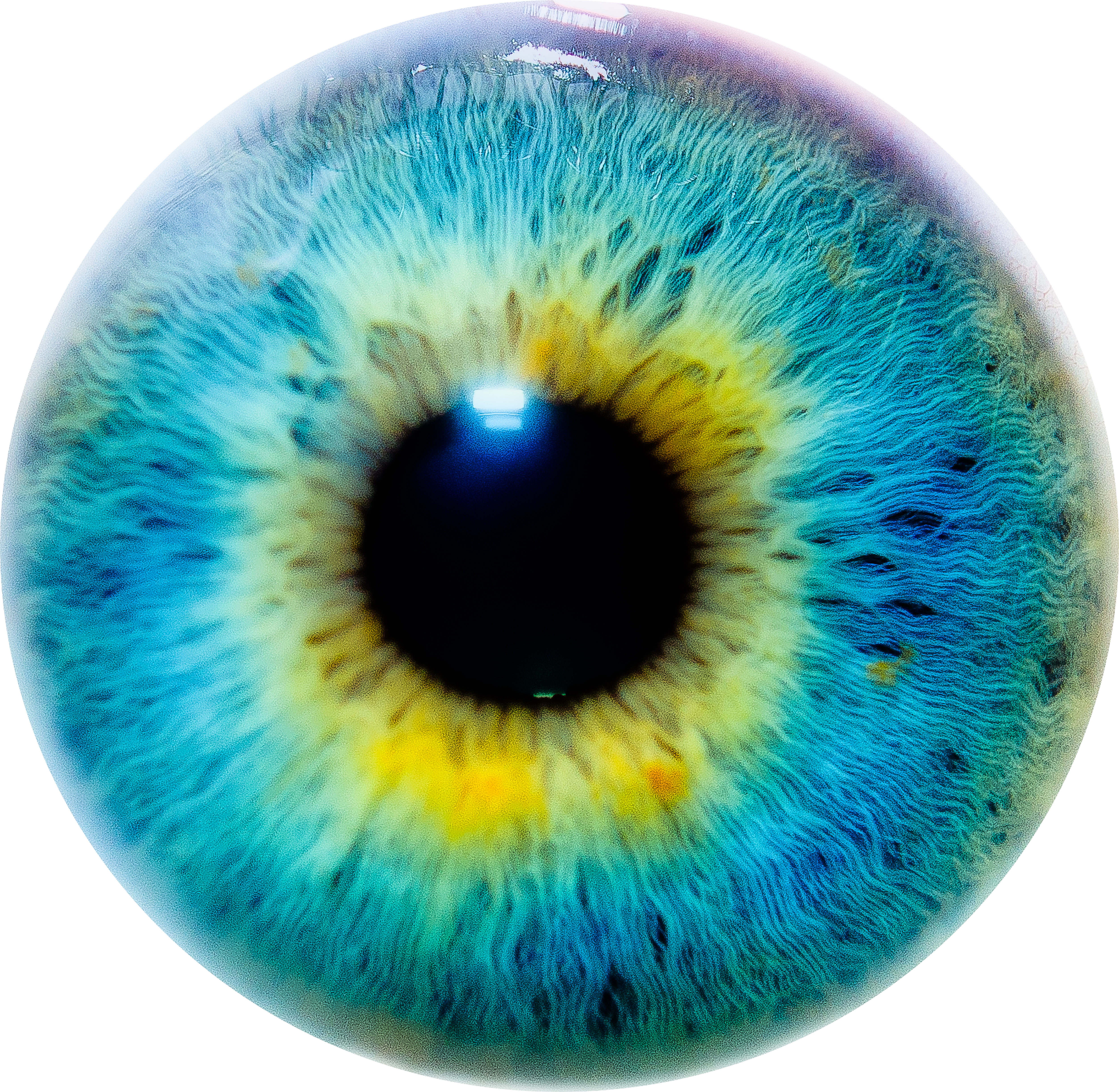 As seen by me. Facebook Fan Page | Twitter